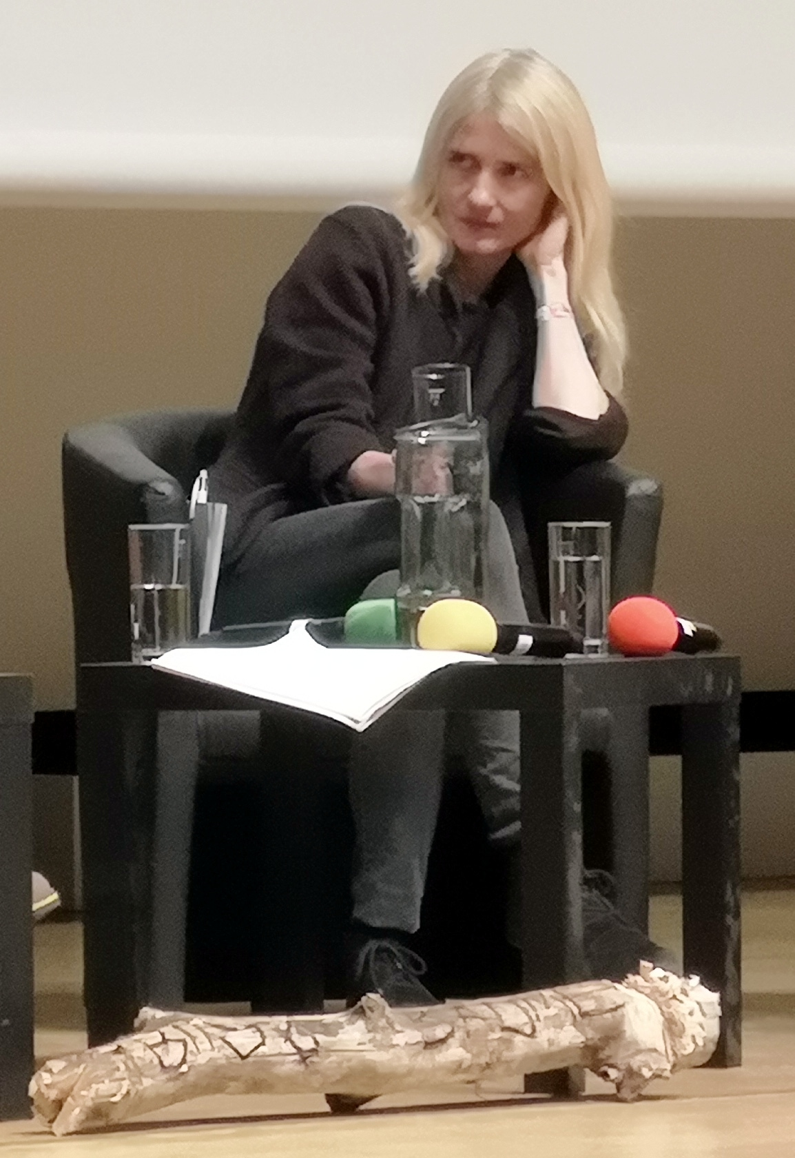 Bits und Bäume Conference in Berlin 17th and 18 November 2018